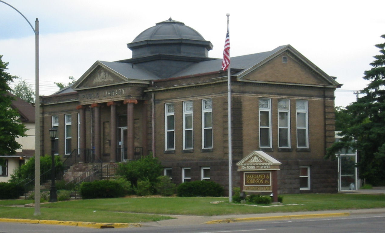 Brainerd Public Library in Brainerd, Minnesota.